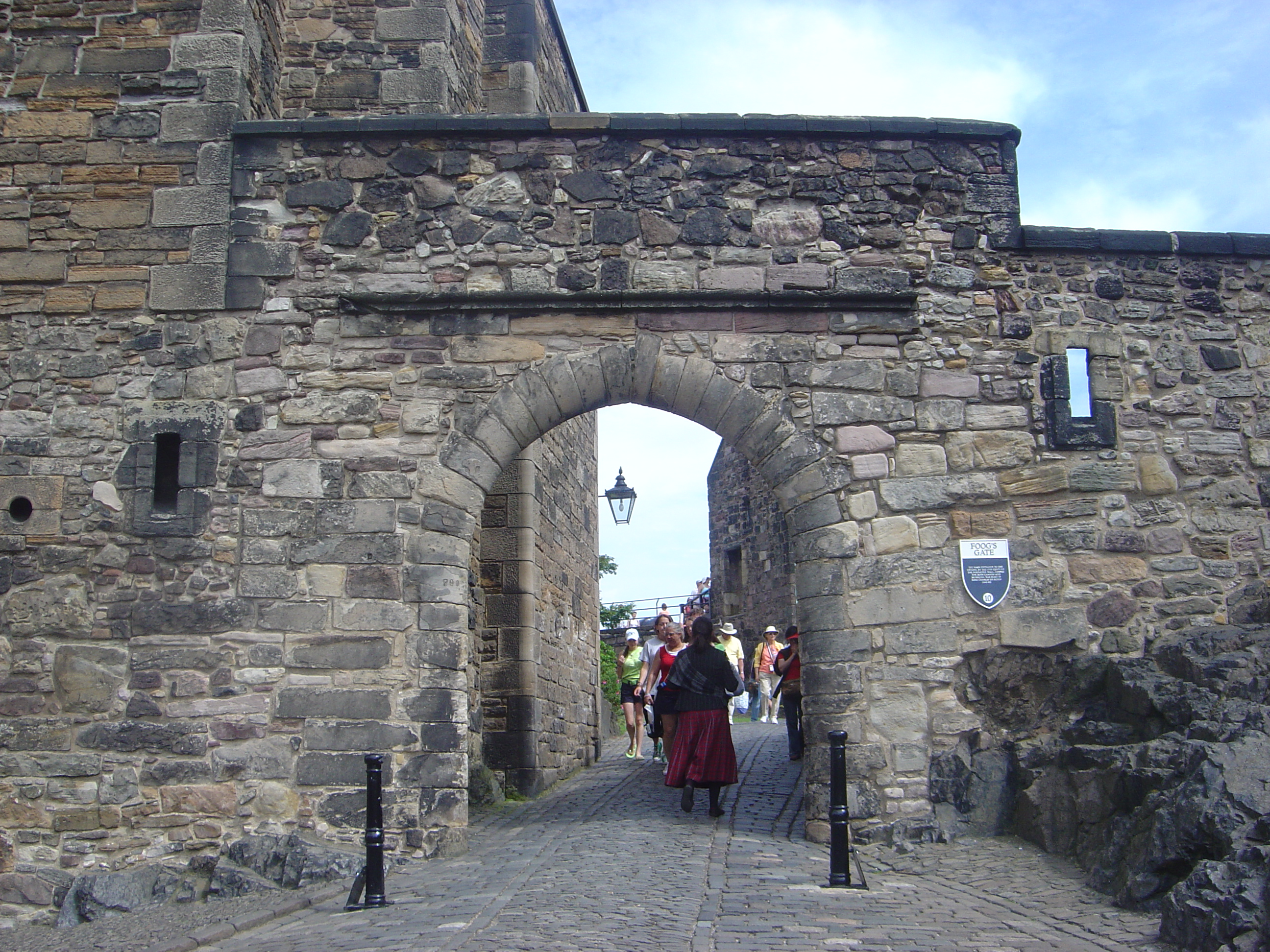 Edinburgh Castle